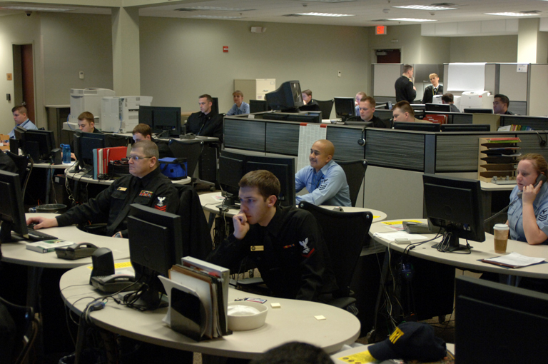 Sailors analyze, detect and defensively respond to unauthorized activity within U.S. Navy information systems and computer networks. 081203-N-2147L-390 NORFOLK, Va. (Dec. 3, 2008) Sailors on the watch-floor of the Navy Cyber Defense Operations Command monitor, analyze, detect and defensively respond to unauthorized activity within U.S. Navy information systems and computer networks. — Released (Text by U.S. Navy)